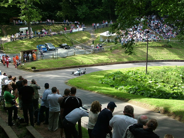 Shelsley Walsh Hill-Climb August 2009 In to the top "S" during the August 16th meet at Shelsley Walsh.